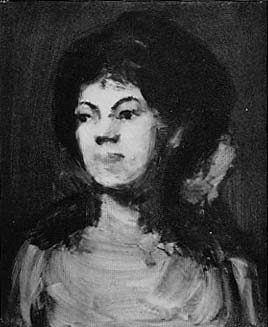 Portrait of a woman, black and white reproduction from color original shown in the 1913 Armory Show